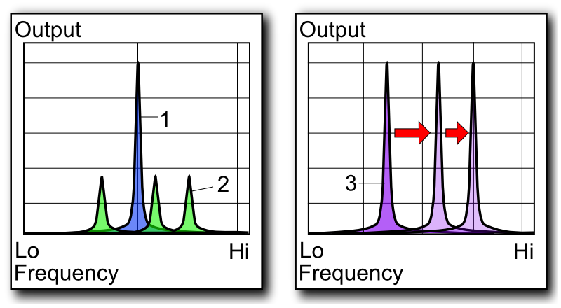 Electronic deception system